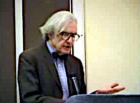 Robert Jay Lifton speaks at conference of Leo J. Ryan Education Foundation (formerly CULTinfo)